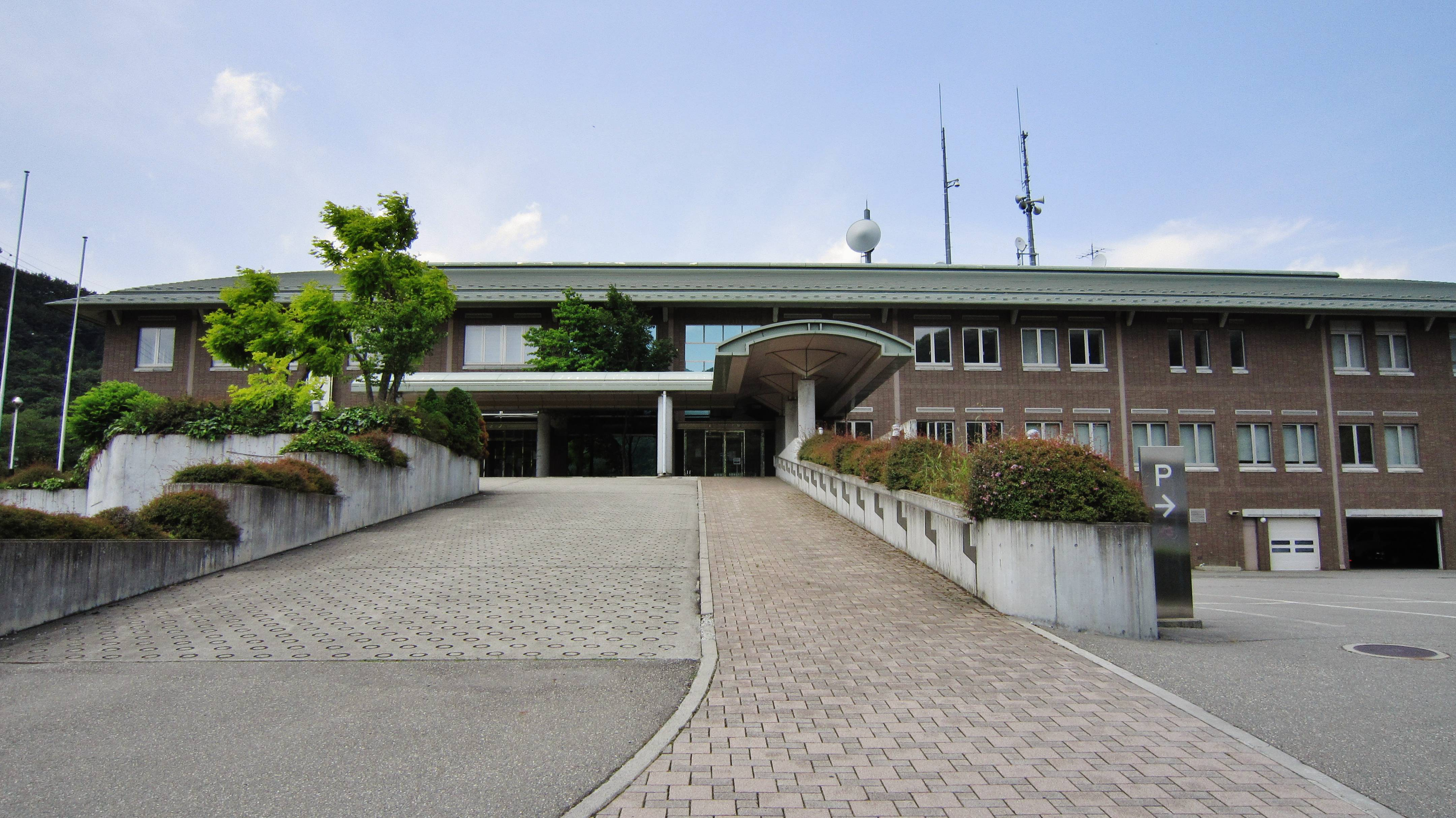 Omi village office.